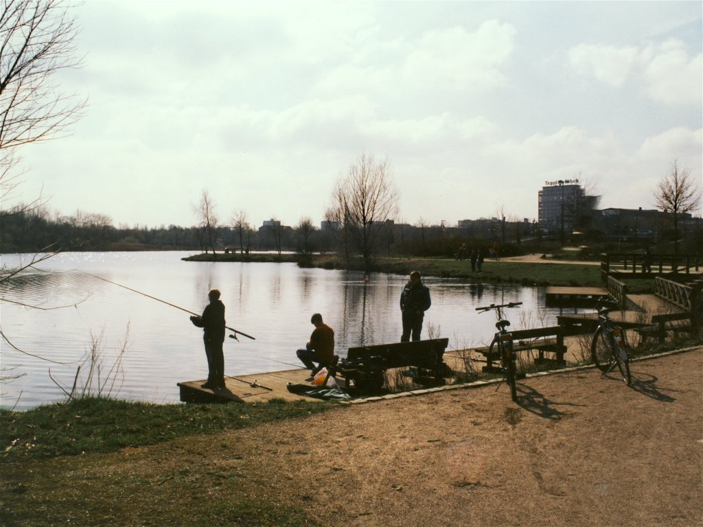 Elmshorn (Germany), Steindamm-Parc , photo: 1999